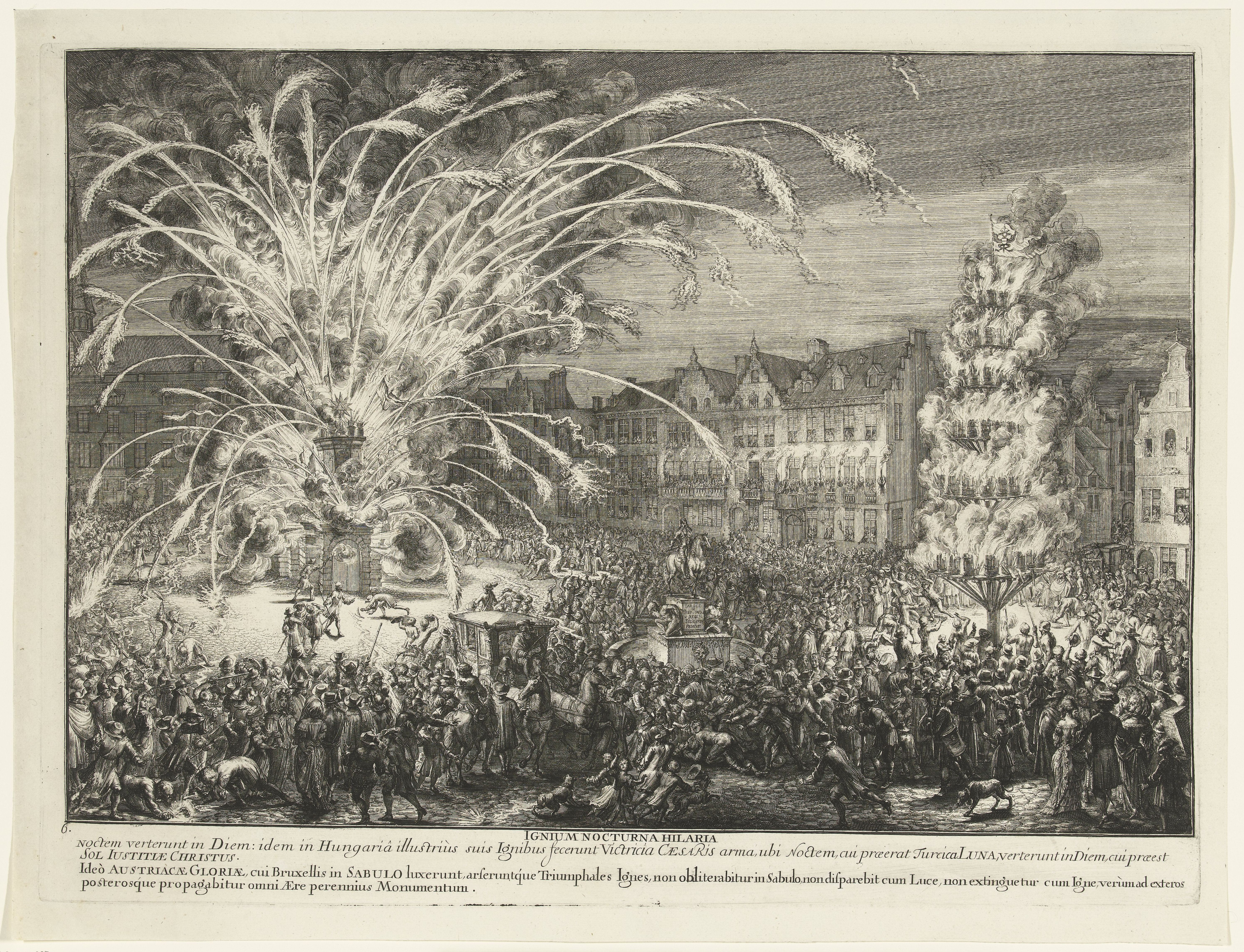 Entrance of Emperor Leopold I in Brussels after his victory over the Turks in 1686